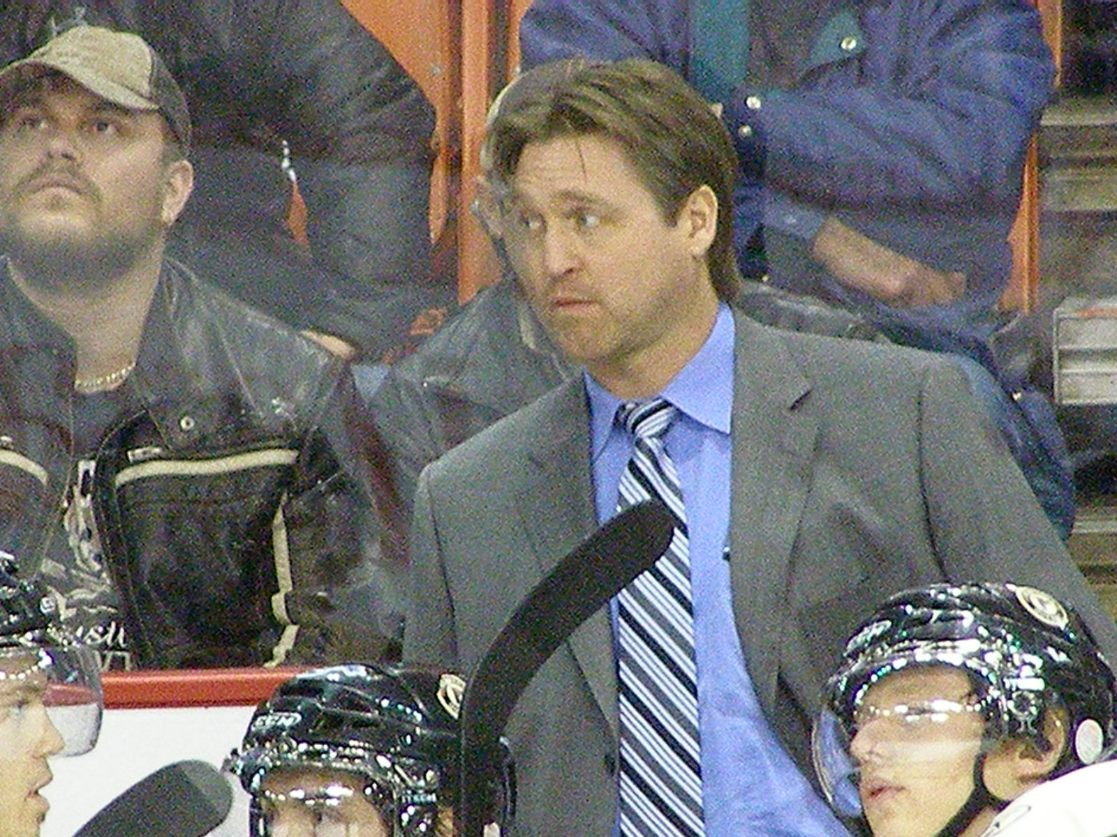 Patrick Roy (2009).